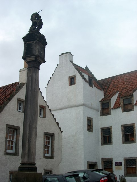 Mercat Cross, Culross